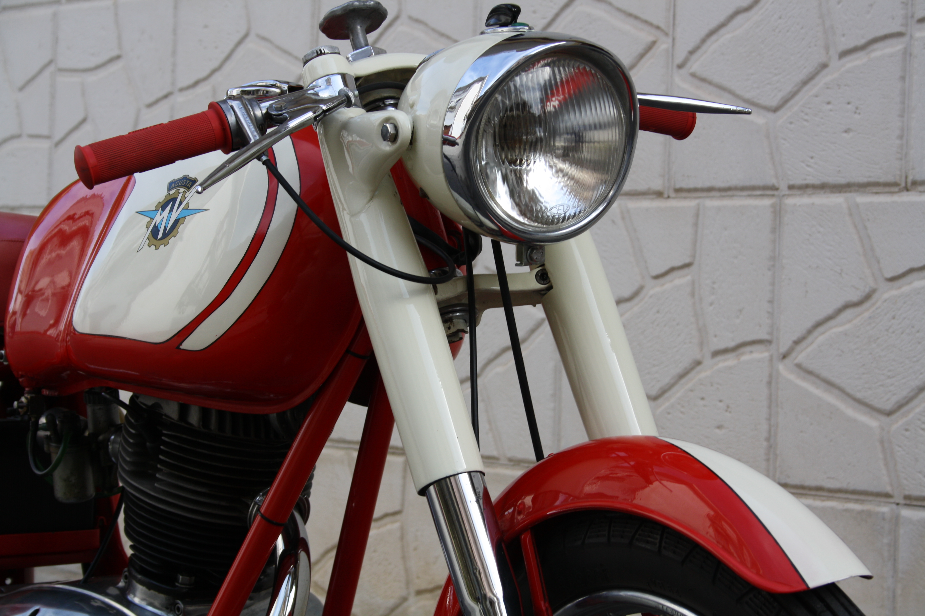 Mv Agusta 150 rapido Sport 1965